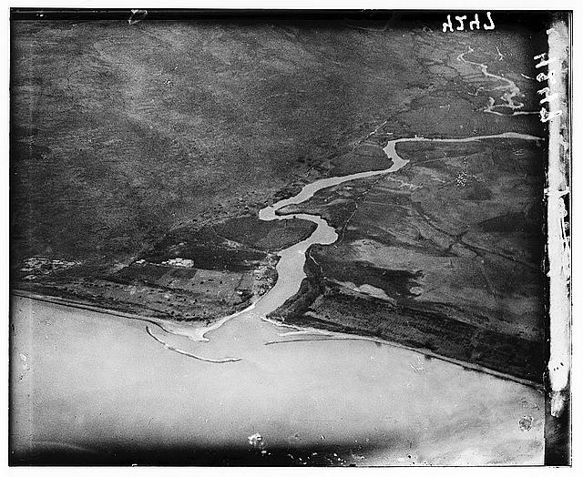 Air views of Palestine (1931). Inflow of Jordan River into Lake of Gennesaret. Northern end of the lake.